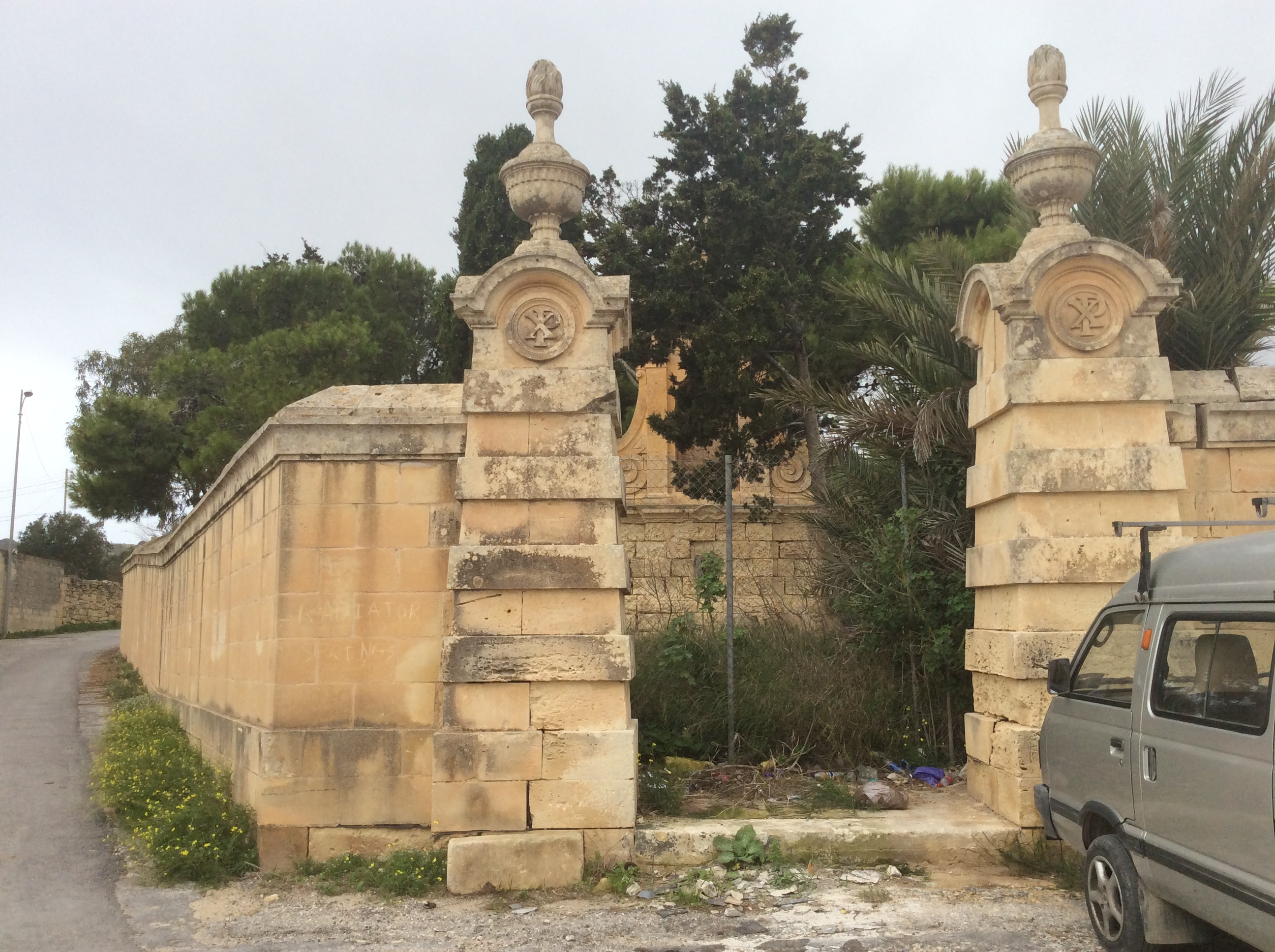 Siggiewi Heritage